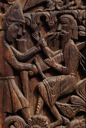 Smaller paart of the left portal plank from Hylestad stave church, the so called "Hylestad I". The portal plank is estimated to 1175.